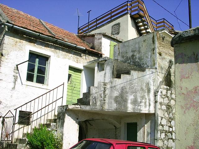 Town of Makar, Croatia